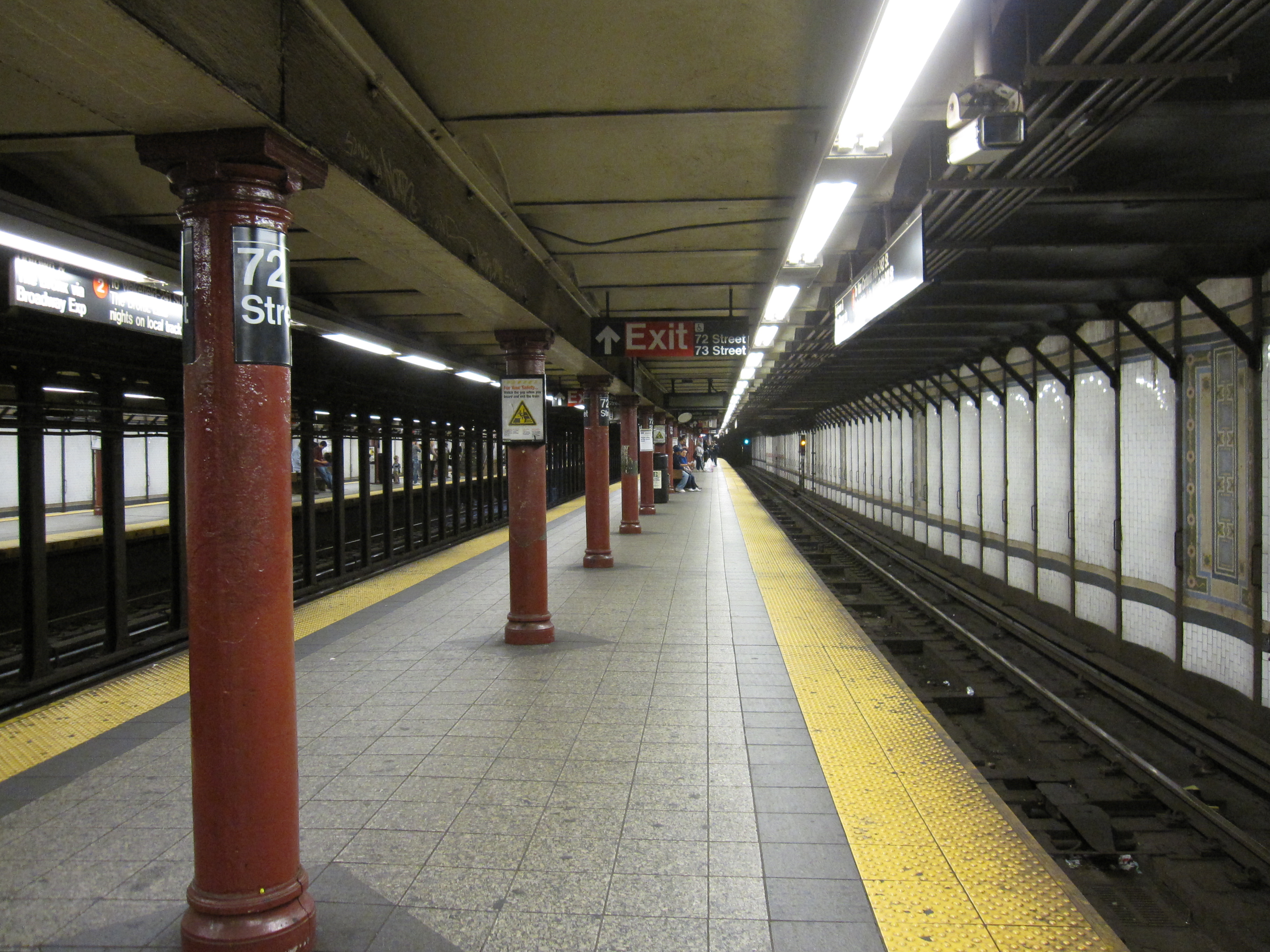 Uptown platforms 72nd Street (IRT Broadway – Seventh Avenue Line)